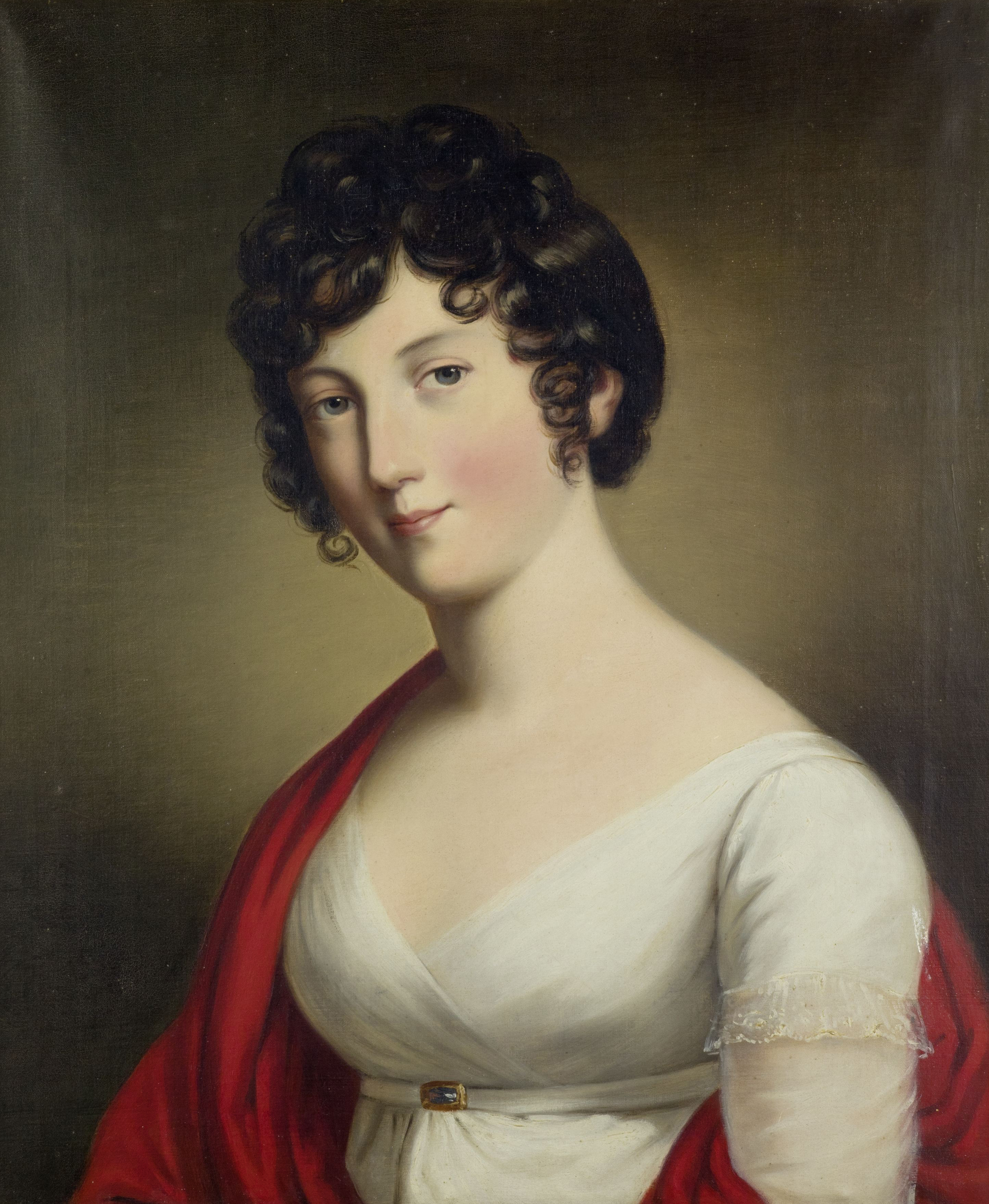 Marie of Baden, Duchess of Brunswick - Wolfenbüttel (1782-1808)